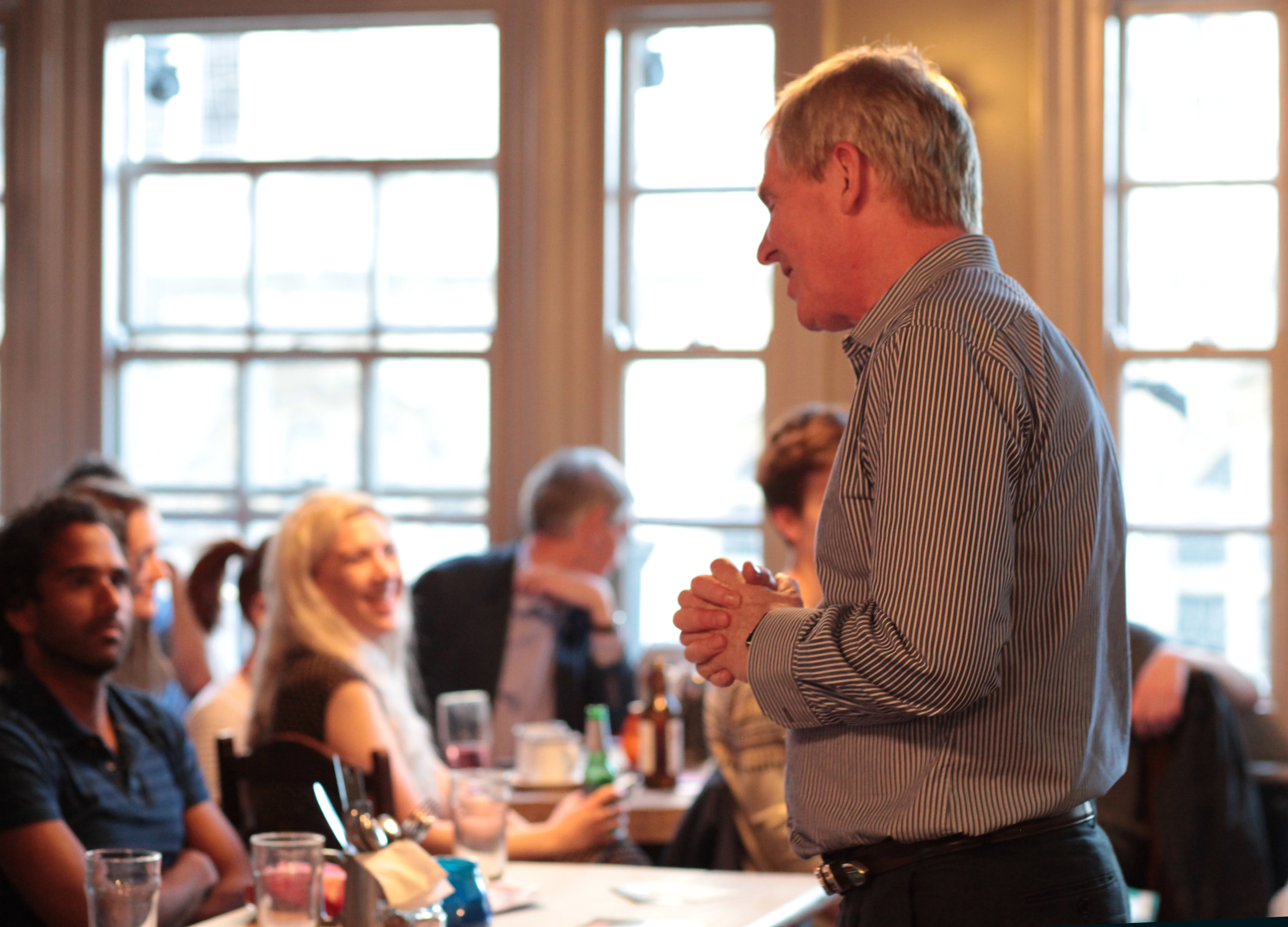 Pint of Science festival 2016: Nigel Shadbolt talking about Artificial Intelligence on May 24 at St. Aldate’s Tavern, Oxford.